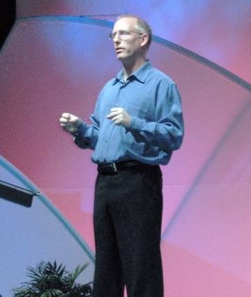 Scott Adams, MBA 1986, creator of the comic strip Dilbert.